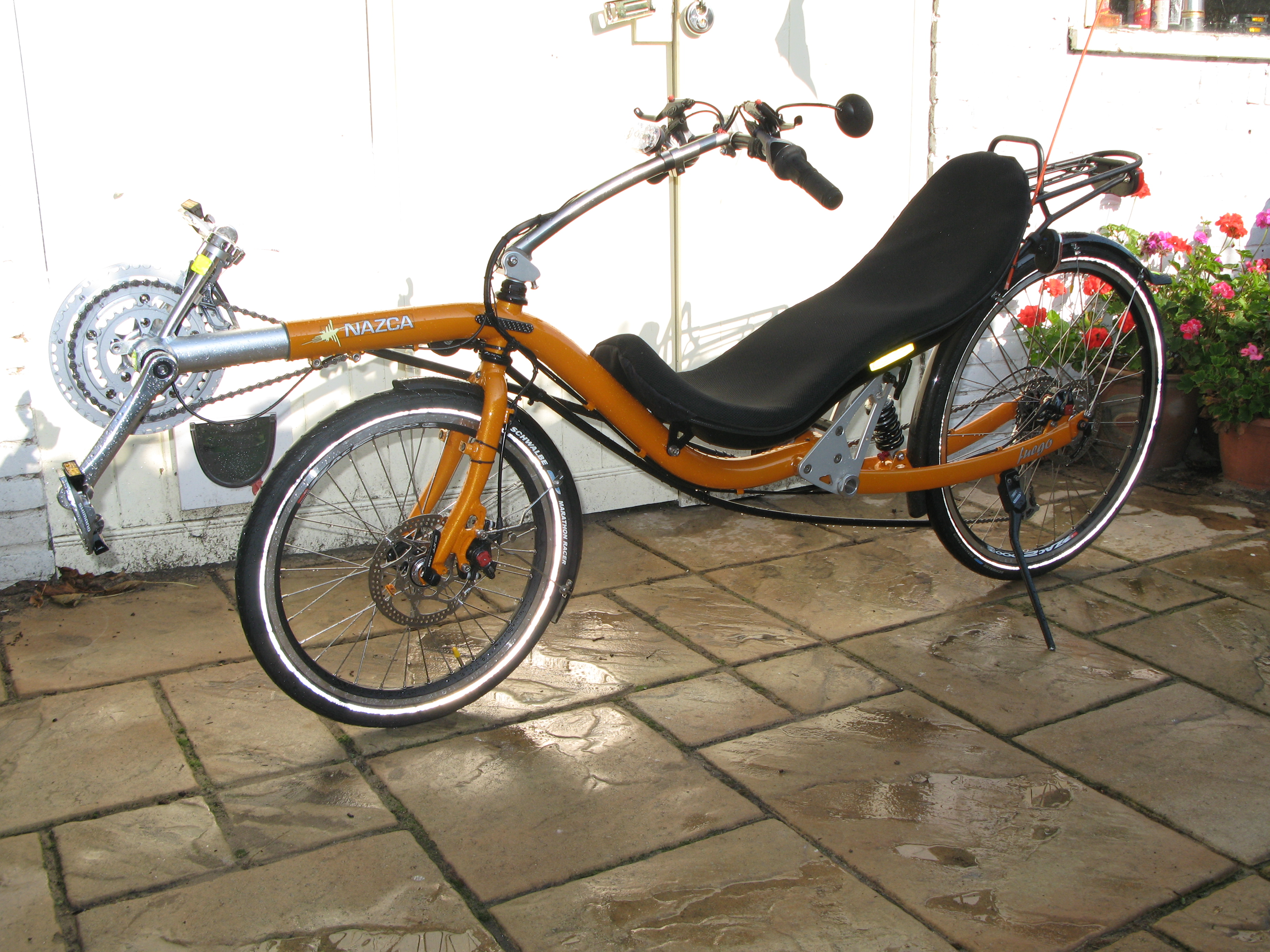 2008 Nazca Fuego recumbent bicycle with 20" front wheel, 26" rear wheel and Shimano XT components.